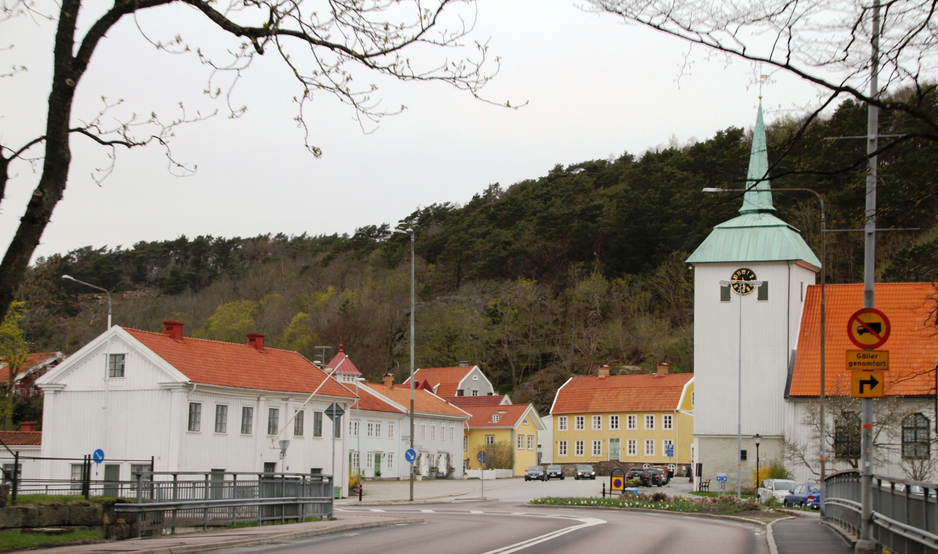 Image from the old town of Kungälv - just north of Gothenburg in western Sweden.